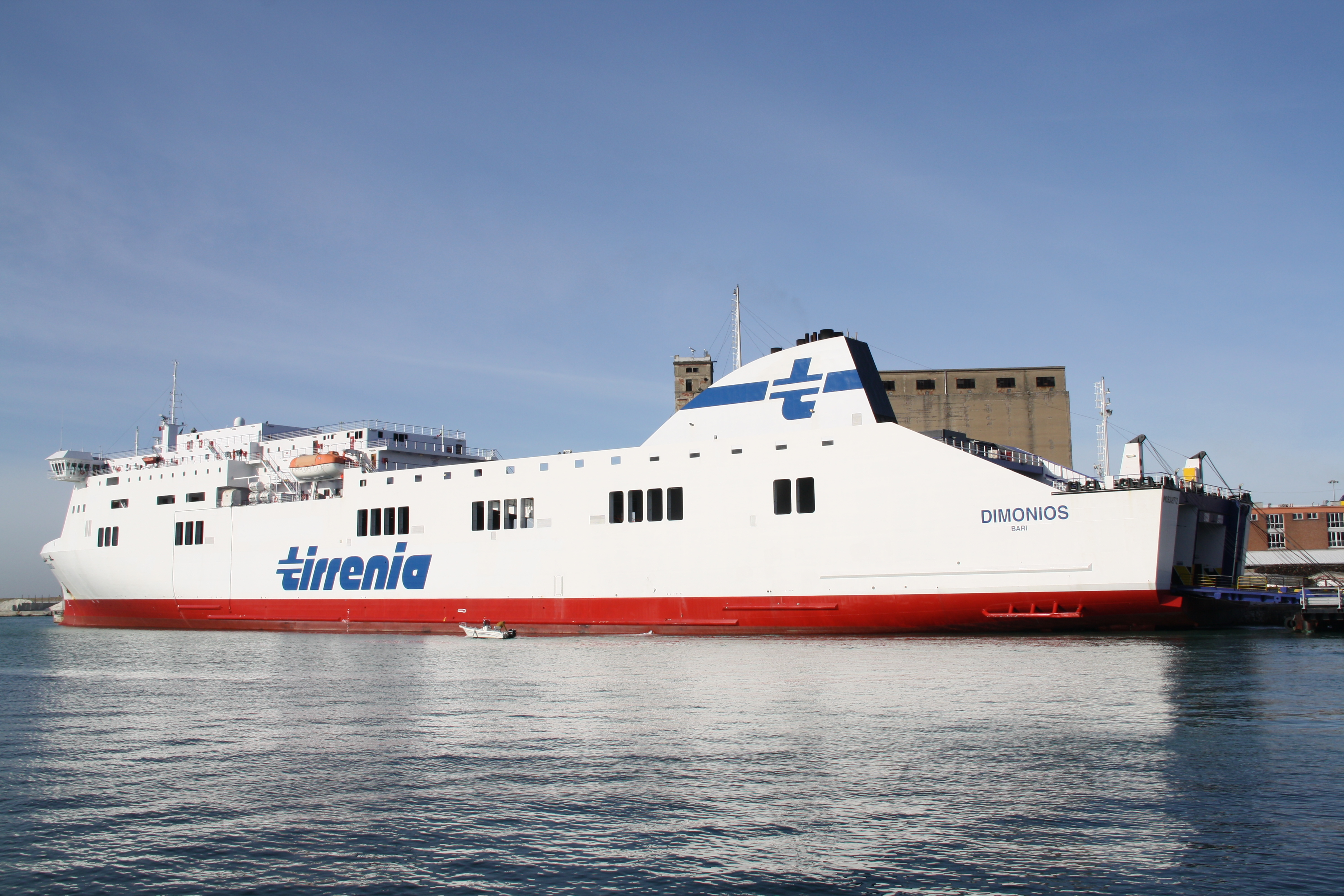 Italy, Port of Livorno. The Tirrenia Compagnia Italiana di Navigazione ro-pax ferry Dimonios berthed at “Sgarallino” wharf.